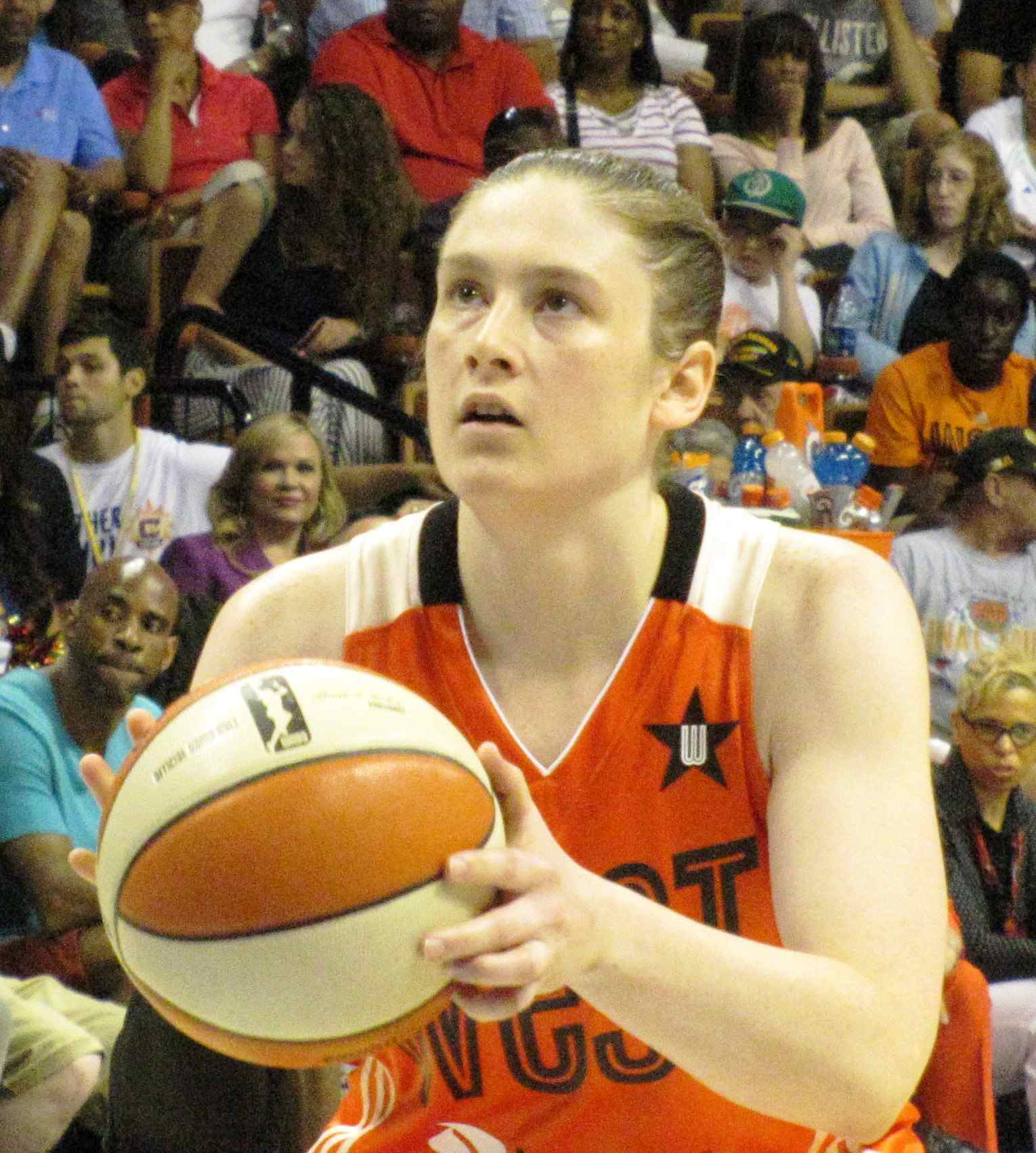 Lindsay Whalen at 2013 WNBA All-Star game at Mohegan Sun 27 July 2013